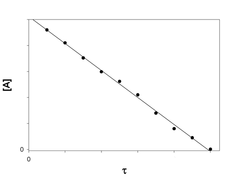 Zero order